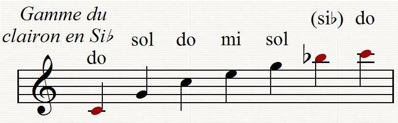 The musical range for the bugle